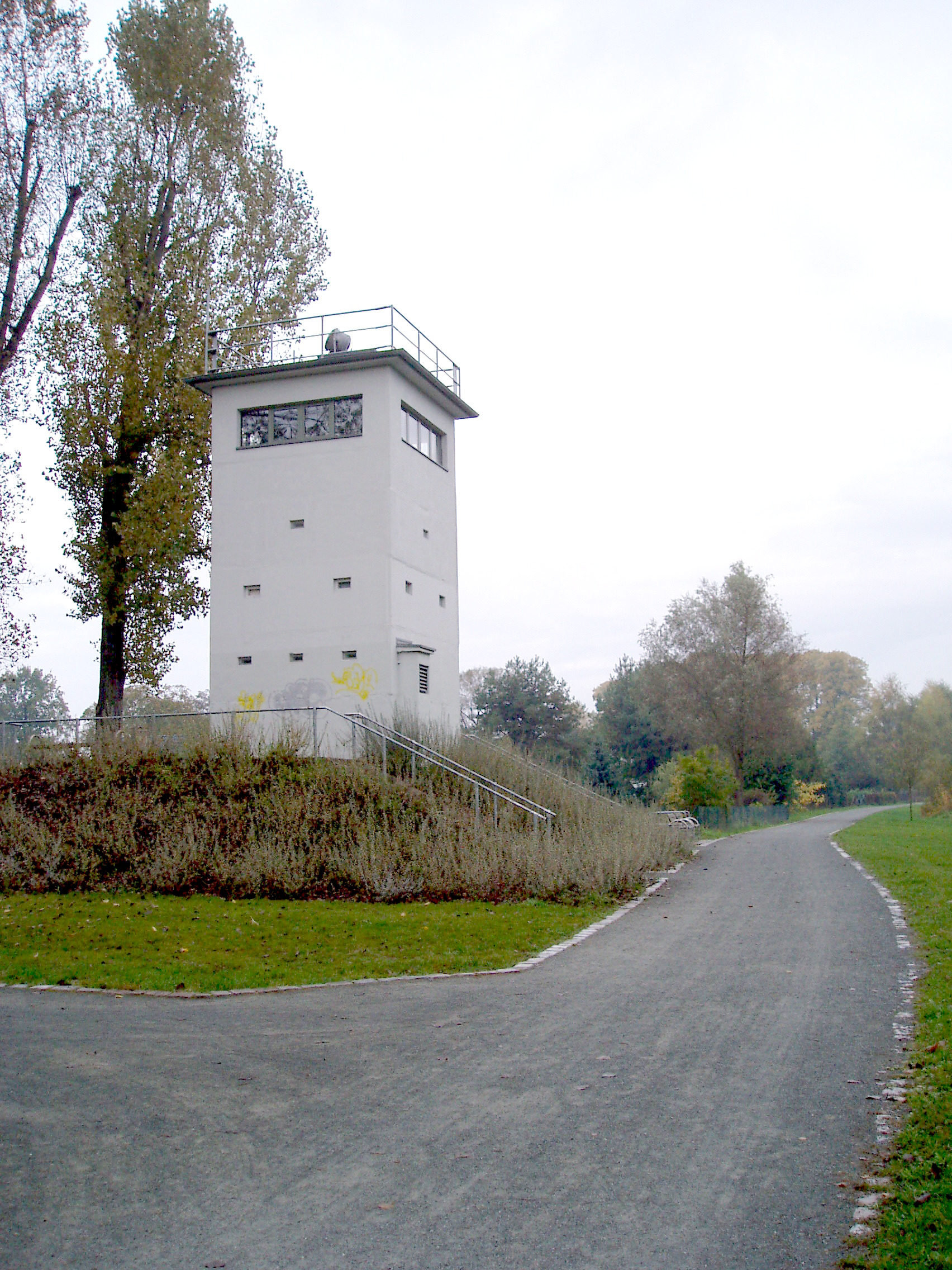 One of the last watchtowers of the Berlin Wall in Hennigsdorf, northwest of Berlin.